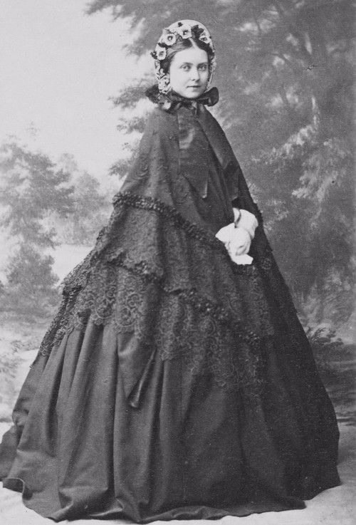 Victoria, Empress of Germany (1840-1901).